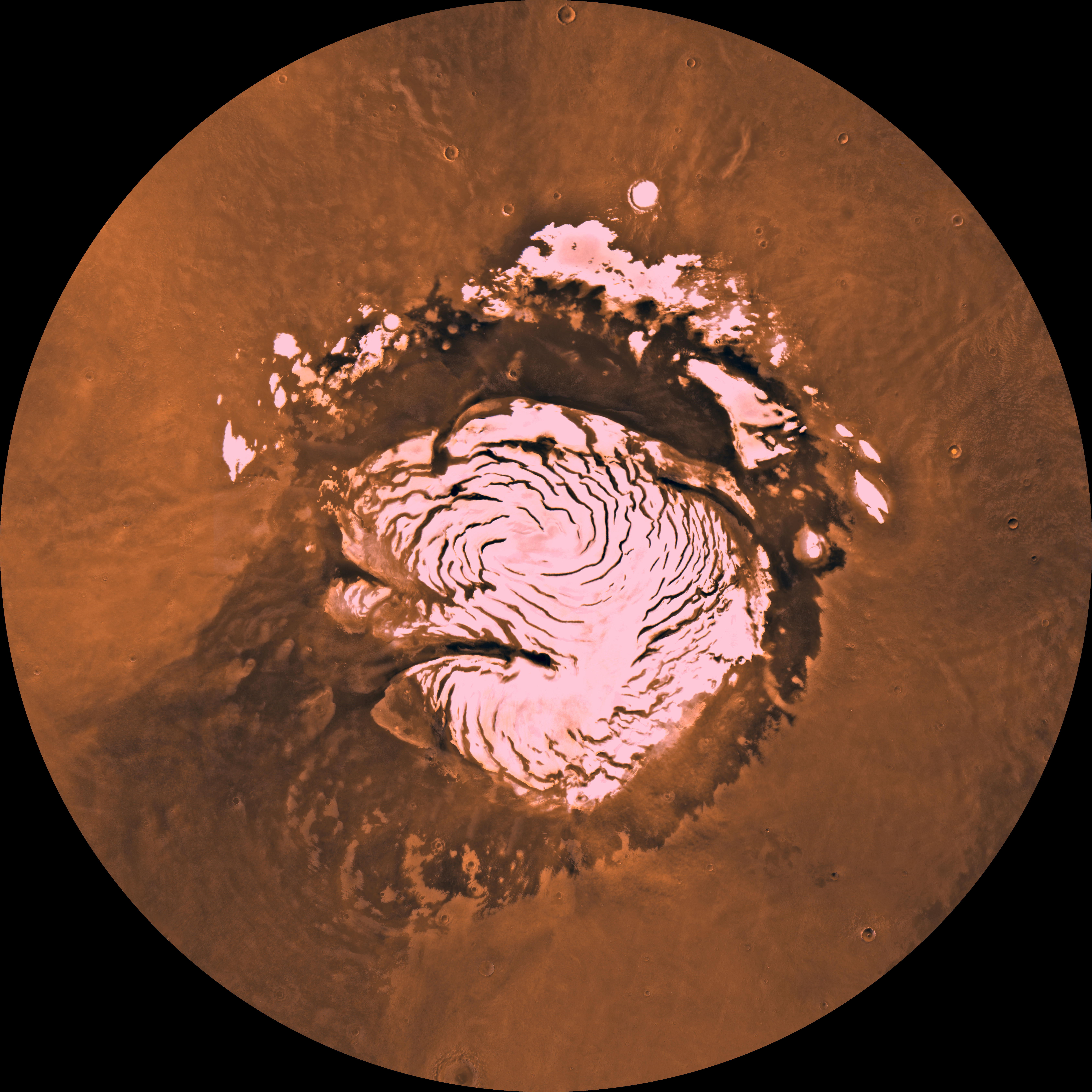 Mars digital-image mosaic merged with color of the MC-1 quadrangle, Mare Boreum region of Mars. The central part is covered by a residual ice cap that is cut by spiral-patterned troughs exposing layered terrain. The cap is surrounded by broad flat plains and large dune fields. Latitude range 65 to 90, longitude range -180 to 180.